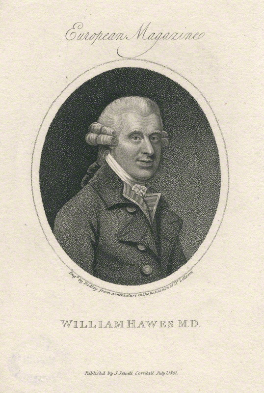 Portrait of William Hawes (1736–1808), English physician, and founder of the Royal Humane Society.